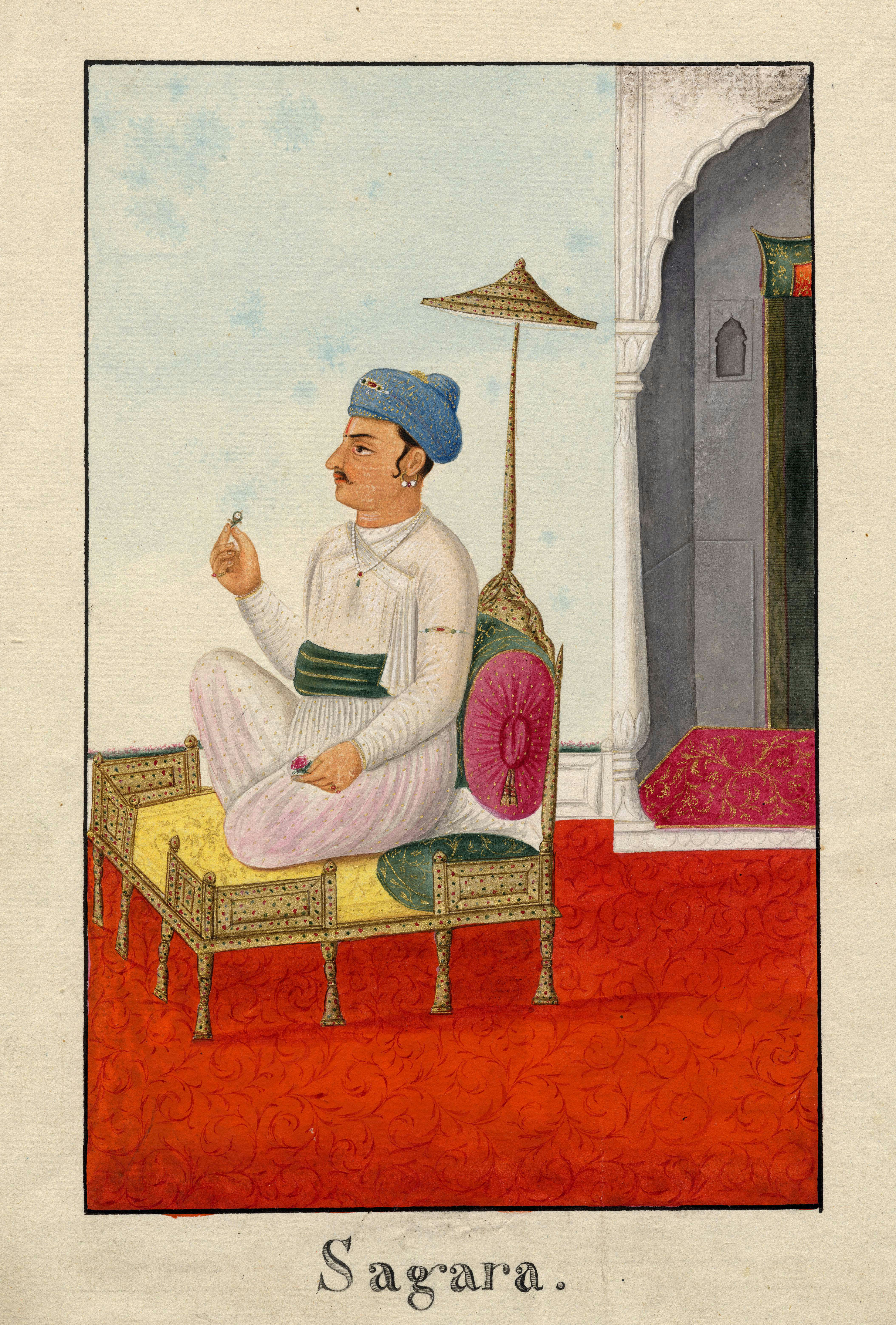 Watercolour painting on paper of Sagara, a Vedic King and ancestor of Rama. Sagara is shown seated on a throne with a bolser at his back and a small umbrella above his head. He wears a large blue turban and a long white tunic with a green sash. He has one knee raised and wears jewellery on his ears, arms and neck. He rests his left hand on his thigh and holds a small flower. He raises his right hand in which another flower is held. The throne is shown on a terrace decorated with scrolling patterns. Behind Sagara is an archway through which can be seen another entrance and decorated textiles. The painting is surrounded by a black border.